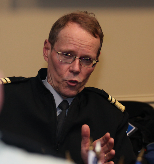 Lt. Gen. Markku Koli led a Finnish delegation on a short visit to the U.S. Army Research Laboratory's Simulation and Training Technology Center in Orlando Feb. 8.